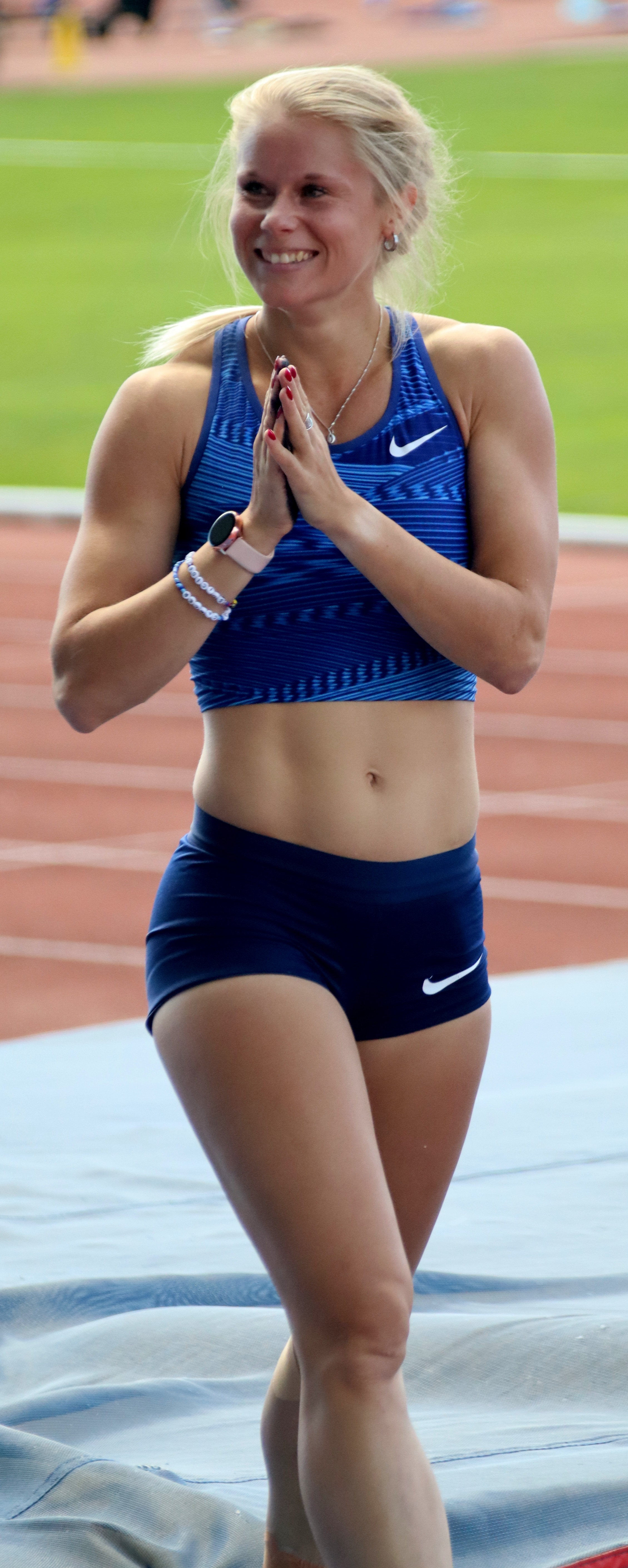 Picture of Michaela Meijer competing in the 2019 Birmingham Grand Prix womens pole vault competition